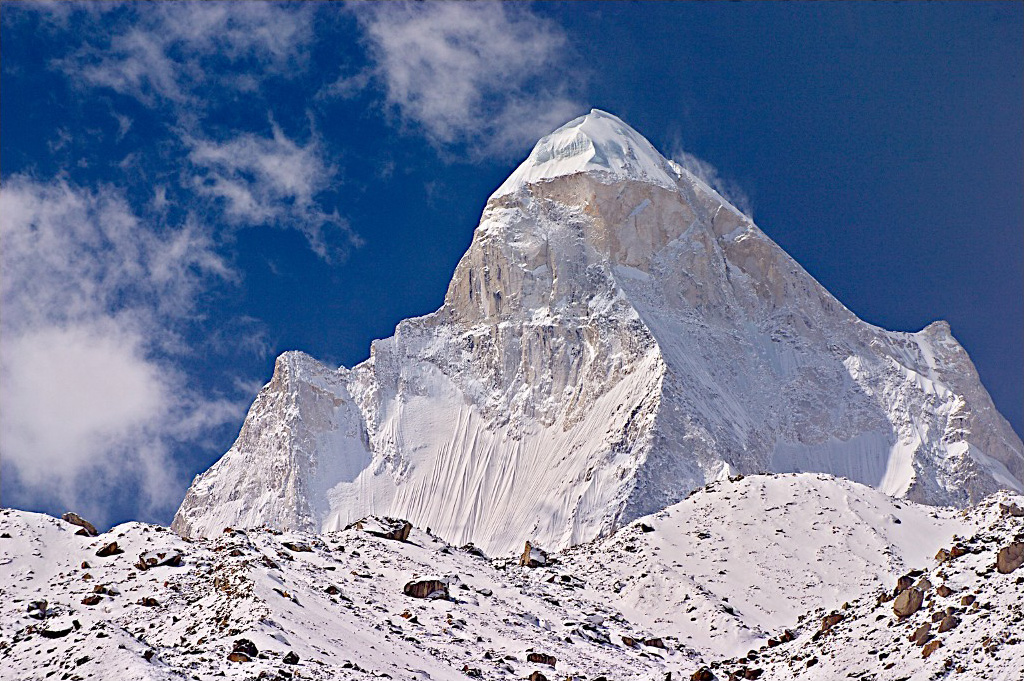 Shivling as we saw it from capming round of Gomukhi. We spent two nights there before leaving for Nanadanban. We had to withstand 10 hours of snow fall and half feet of snow.